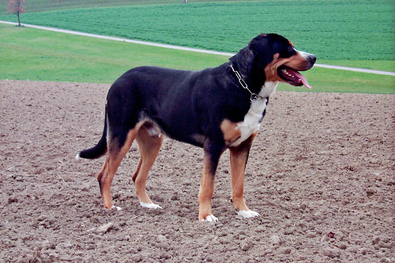 Greater Swiss Mountain Dog